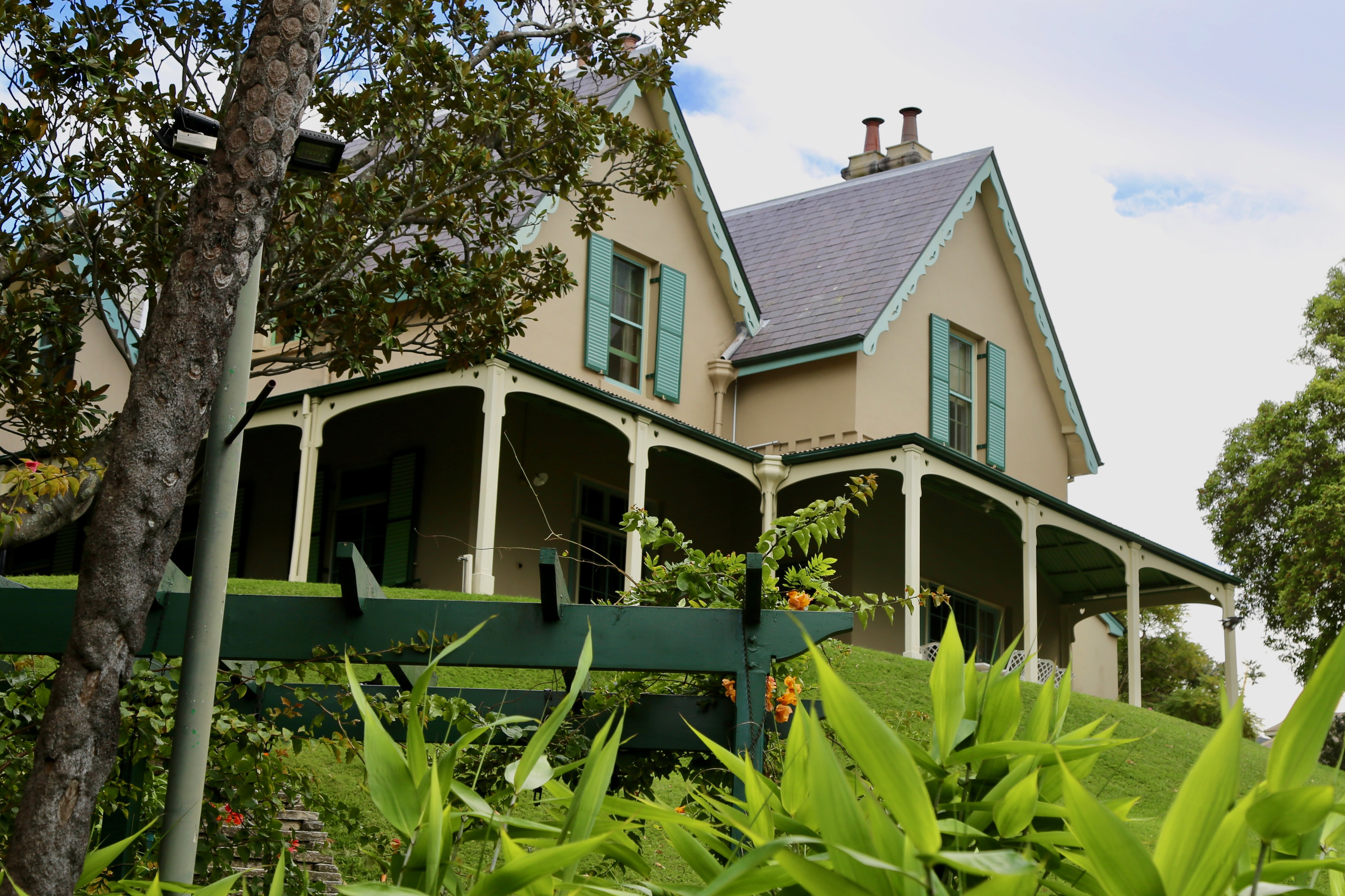 Kirribilli House is the secondary official residence of the Prime Minister of Australia. Located in Sydney, New South Wales, the house is at the far eastern end of Kirribilli Avenue in the harbourside suburb of Kirribilli. It is one of two official Prime Ministerial residences, the primary official residence being The Lodge in Canberra, Australian Capital Territory.